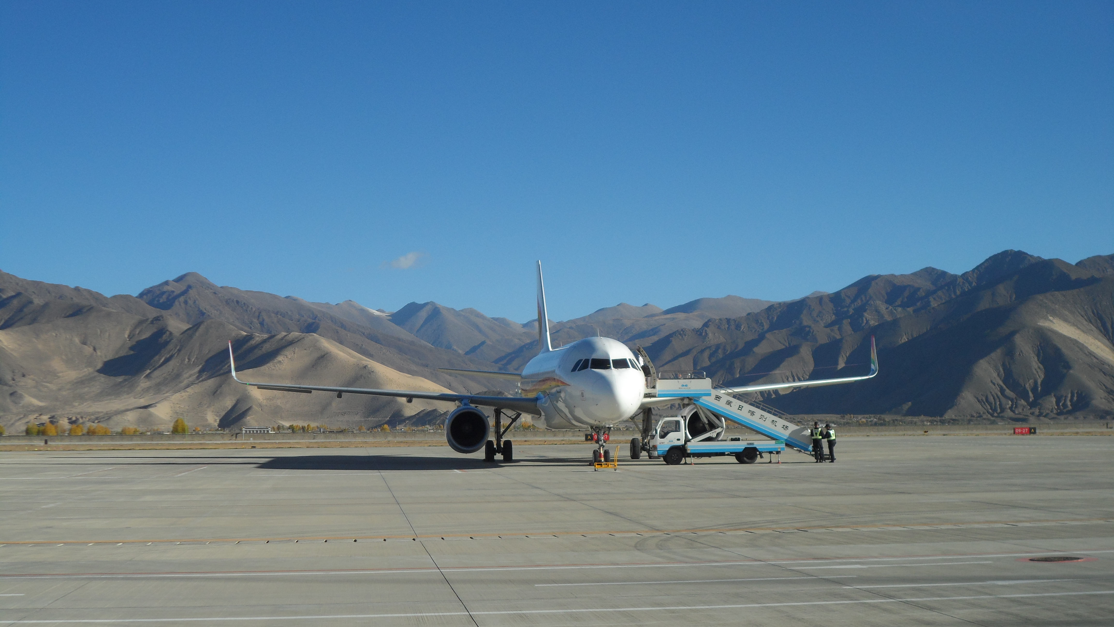 Shigatse Peace Airport